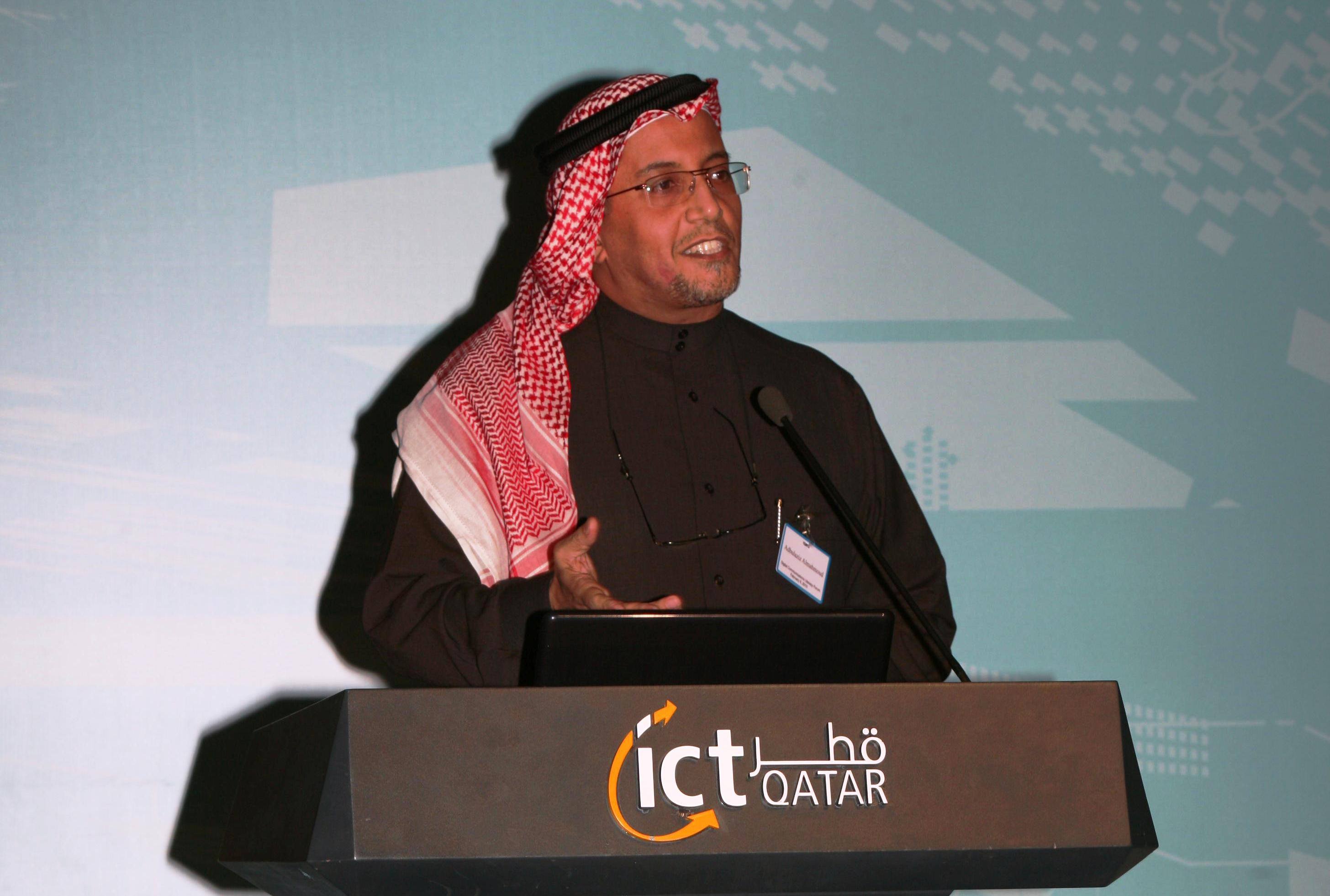 Abdulaziz Al Mahmoud at an event hosted by ictQATAR.